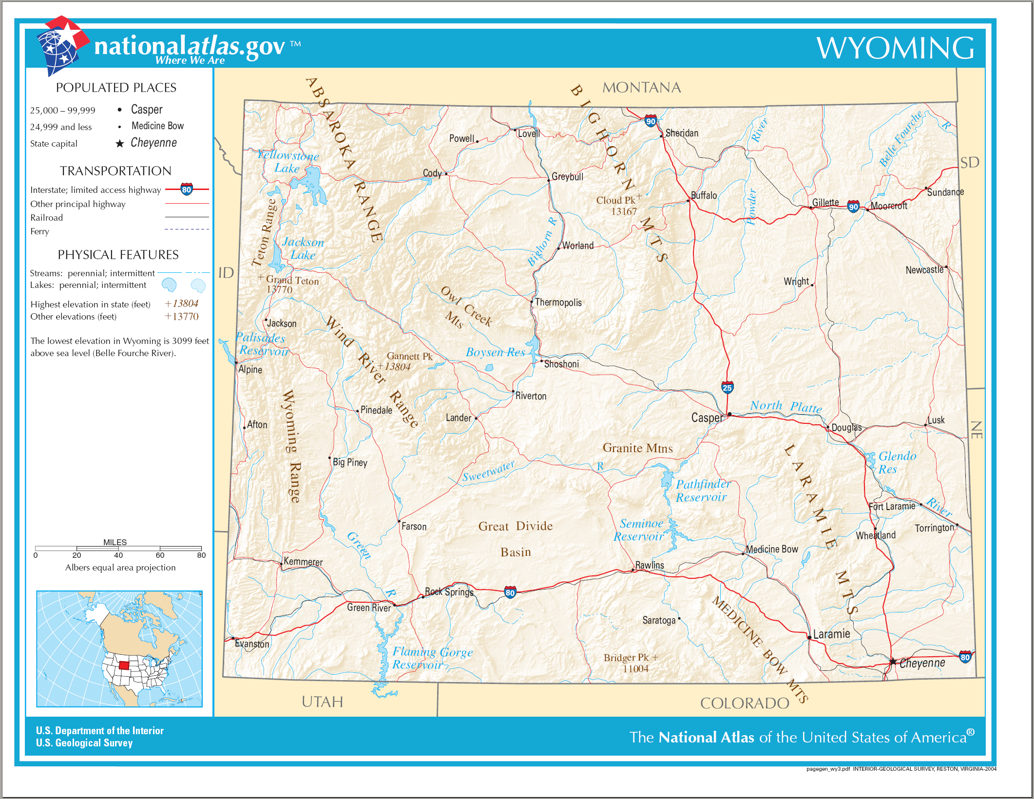 Map of Wyoming.